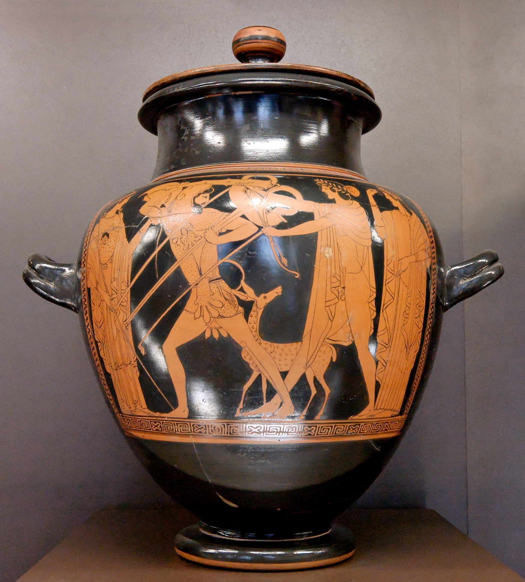 The struggle between Herakles and Apollo for the Delphic tripod. Side A from an Attic red-figure stamnos, ca. 480 BC. From Vulci.